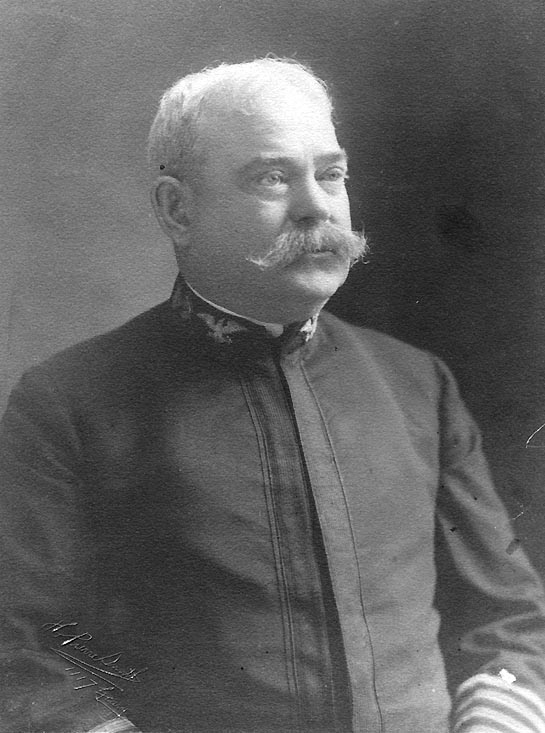 Rear Admiral (then-Captain) Lucien Young (1852-1912), Removed caption read: Photo # NH 162 Captain Lucien Young, USN